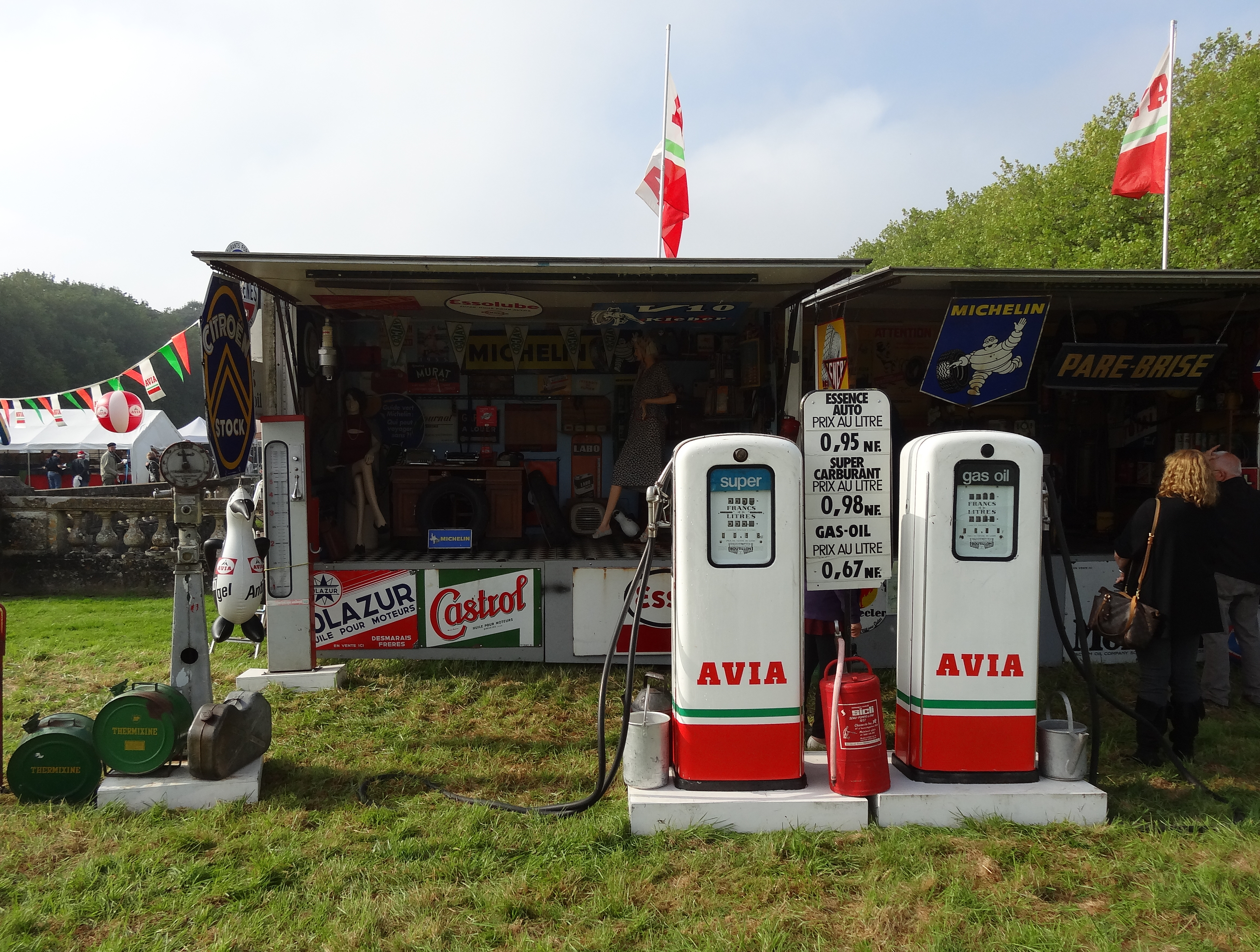 Avia petrol station, 80 years Citroen Traction Avant 2014, La Ferté-Vidame